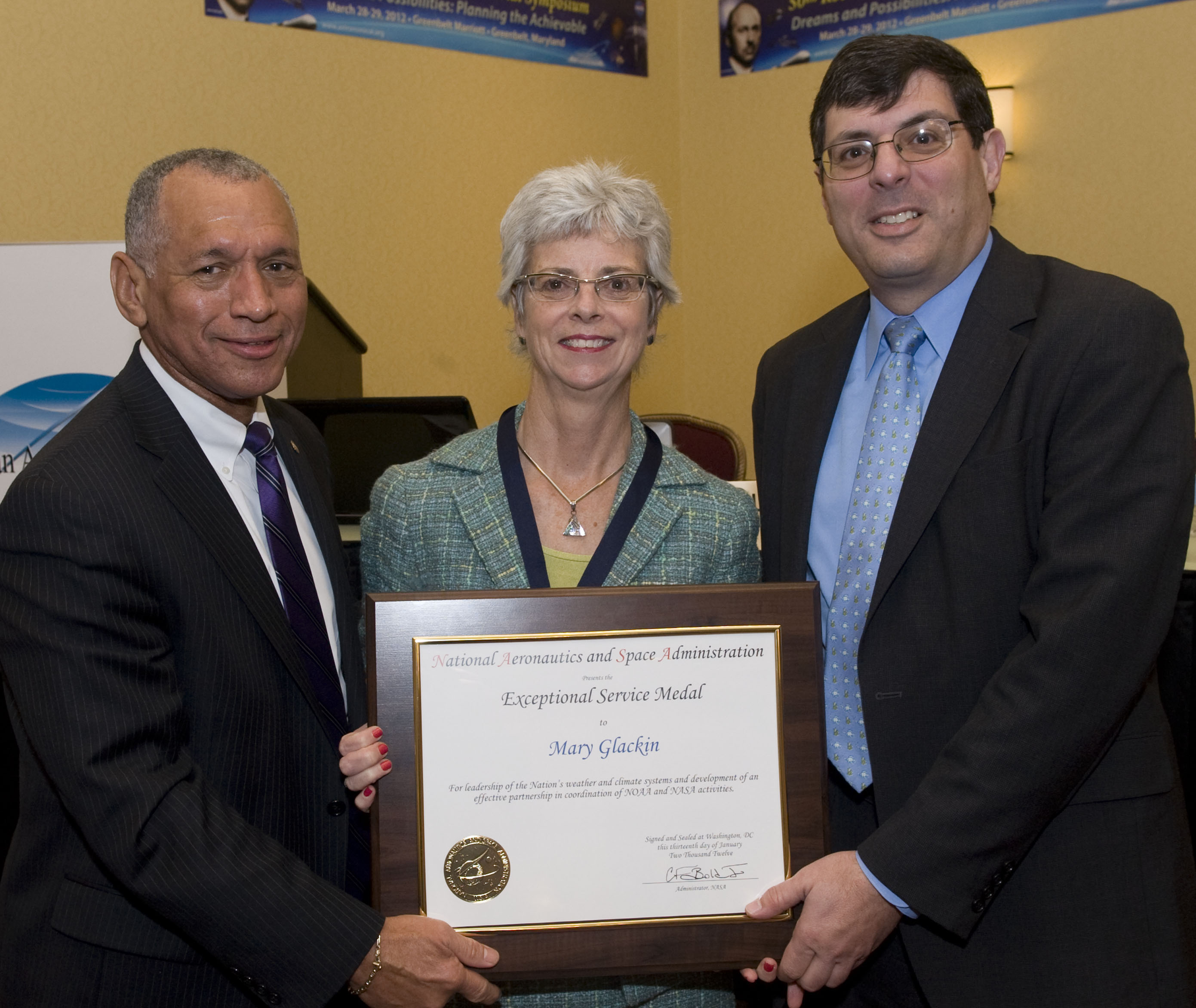 NASA Administrator Charles F. Bolden and NASA Goddard Center Director Chris Scolese present the NASA Exceptional Service Medal to NOAA Deputy Under Secretary for Operations Mary Glackin at the 50th Robert H. Goddard Memorial Symposium at the Greenbelt Marriott in Greenbelt, Maryland on March 28, 2012.